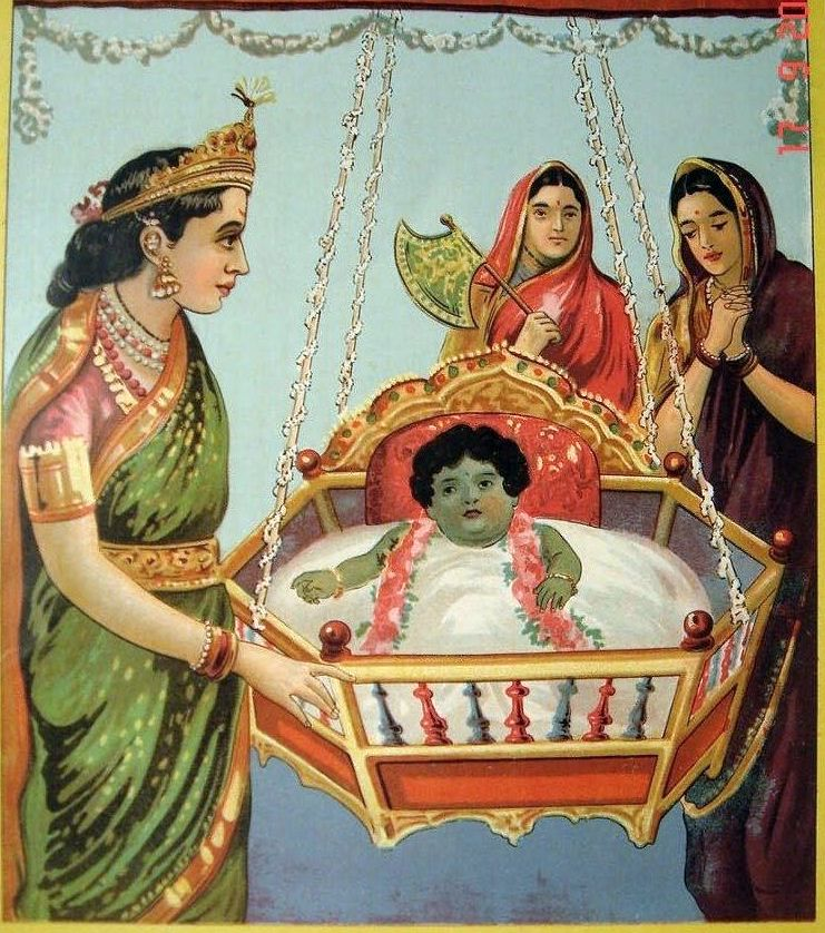 Janmashtami is the joyful celebration of Lord Krishna's birth. Major celebrations of Krishna Janmashtami takes place at midnight as Krishna is said to have made hisdivine appearance in that hour. Fasting, bhajans, pujas and many other rituals mark Janmashtami celebrations in India.